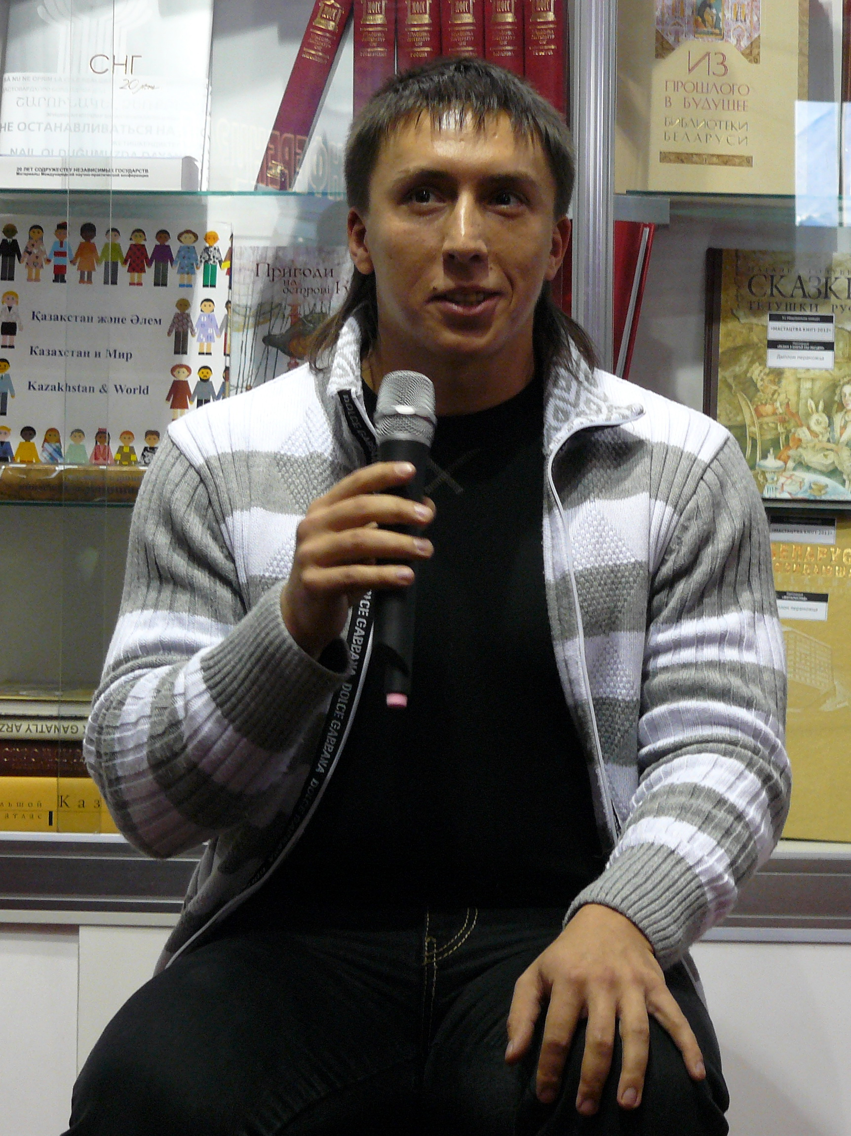 Sci-Fi writer Alex Kosh during XIX Minsk International Book Expo